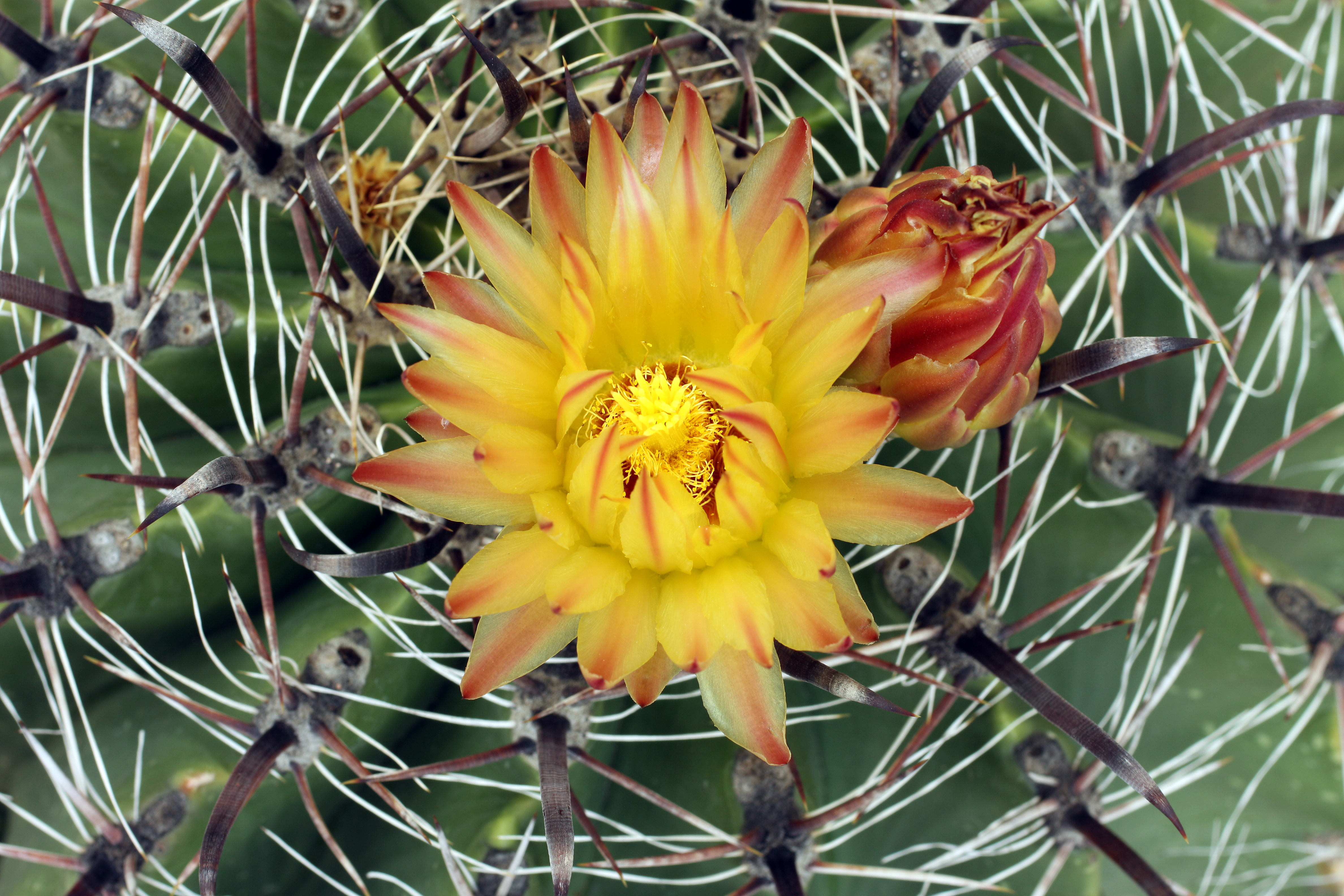 Ferocactus wislizenii in bloom. Flor de biznaga (Ferocactus wislizenii)